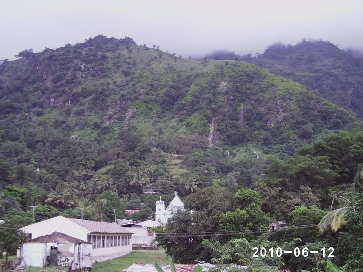 Baguia Vila